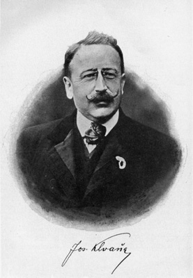 Josef Klvana, geologist, mineralogist, pedagogue.